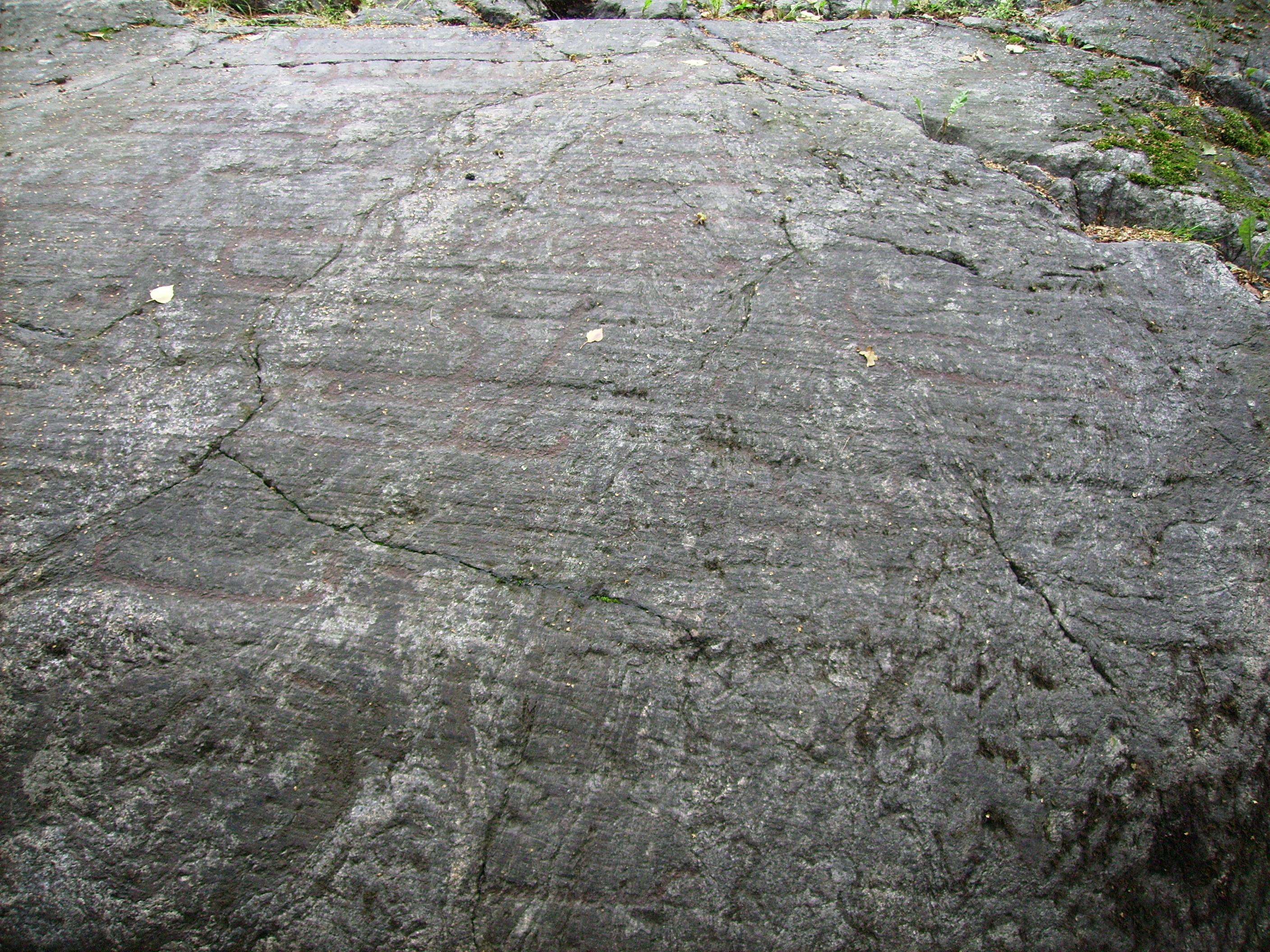 Picture of Ullevi in Gnesta